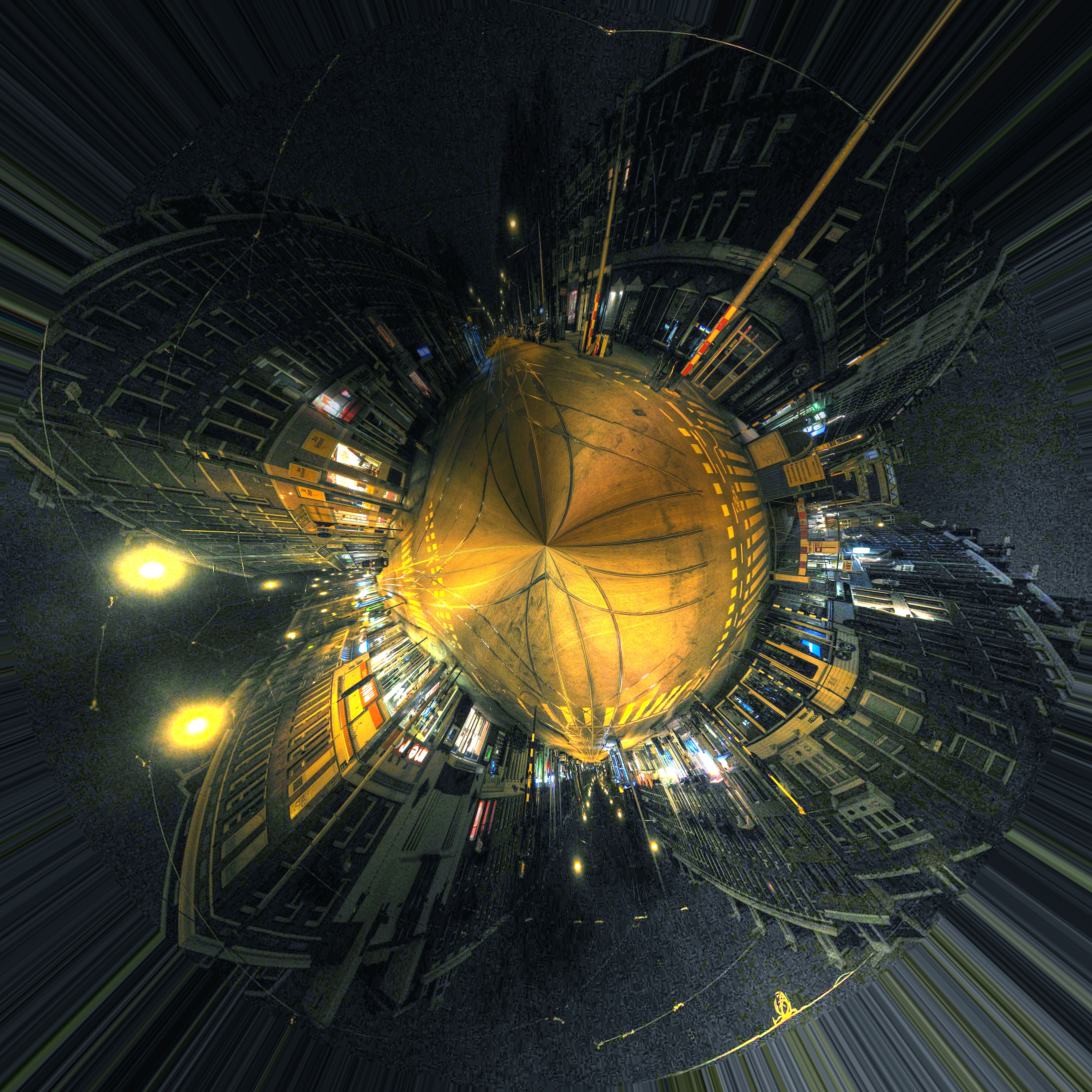 A 360 degree polar projection of the tramtracks at the crossing of Ceintuurbaan and Ferdinand Bolstraat, januari 2008